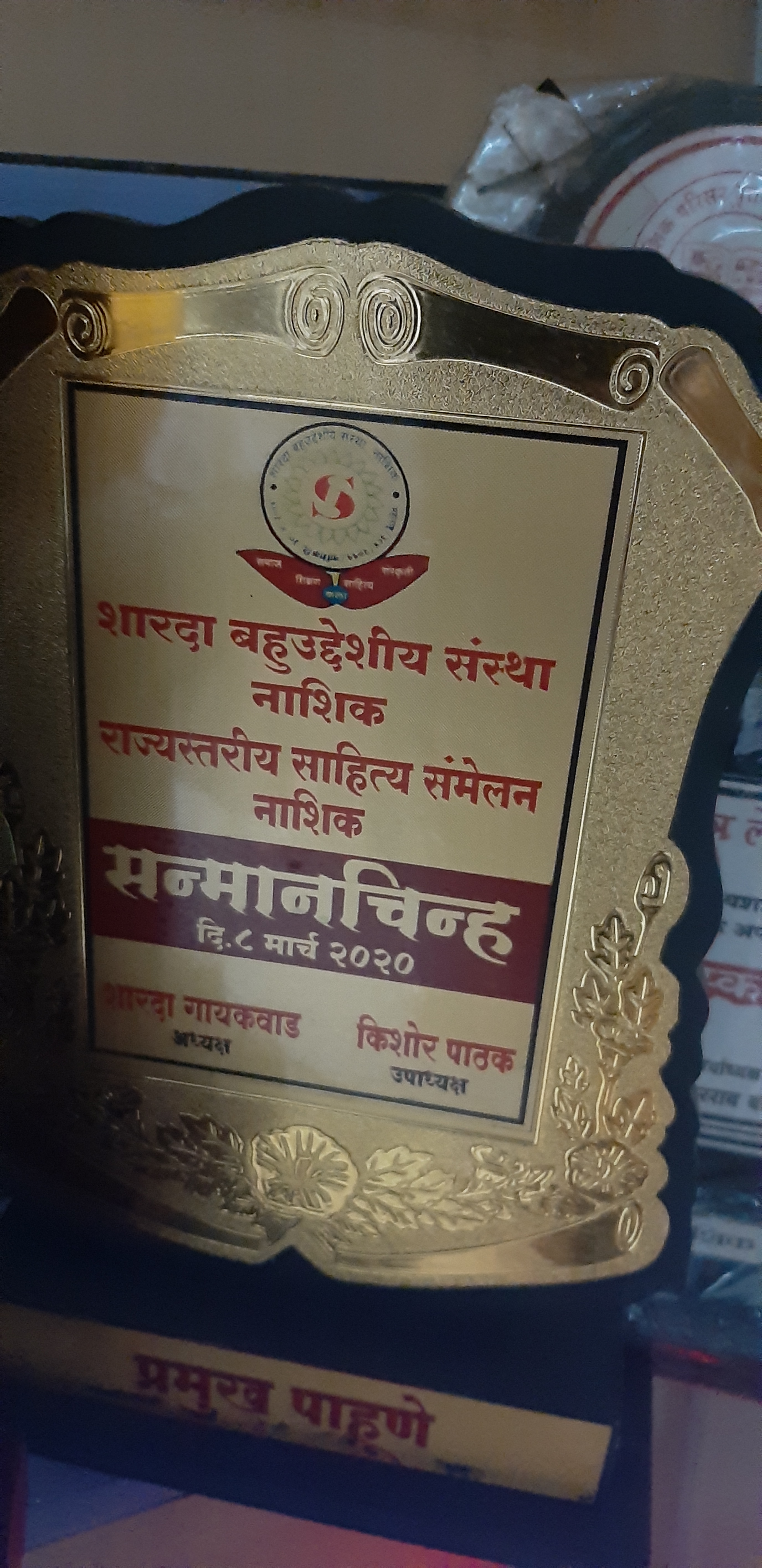 Award